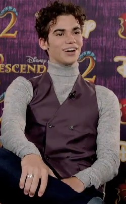 Cameron Boyce in 2017